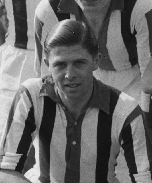 Janus Wagener in 1952